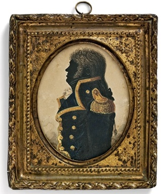 An officer called Robert Carthew Reynolds in military uniform, by John Buncombe Medium: miniature on card Size: 8.8 cm. (3.5 in.)